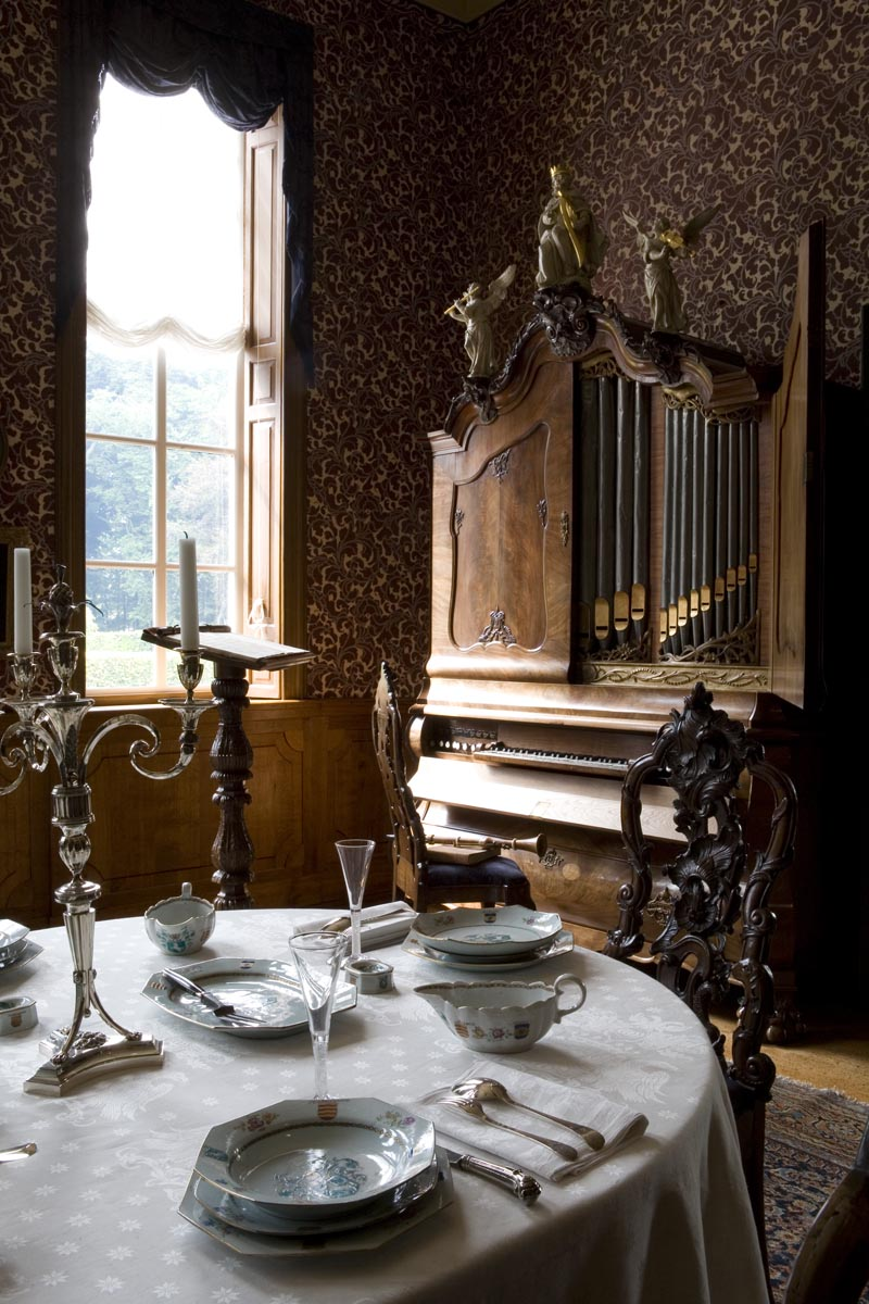 Castle Menkemaborg interior diningroom.